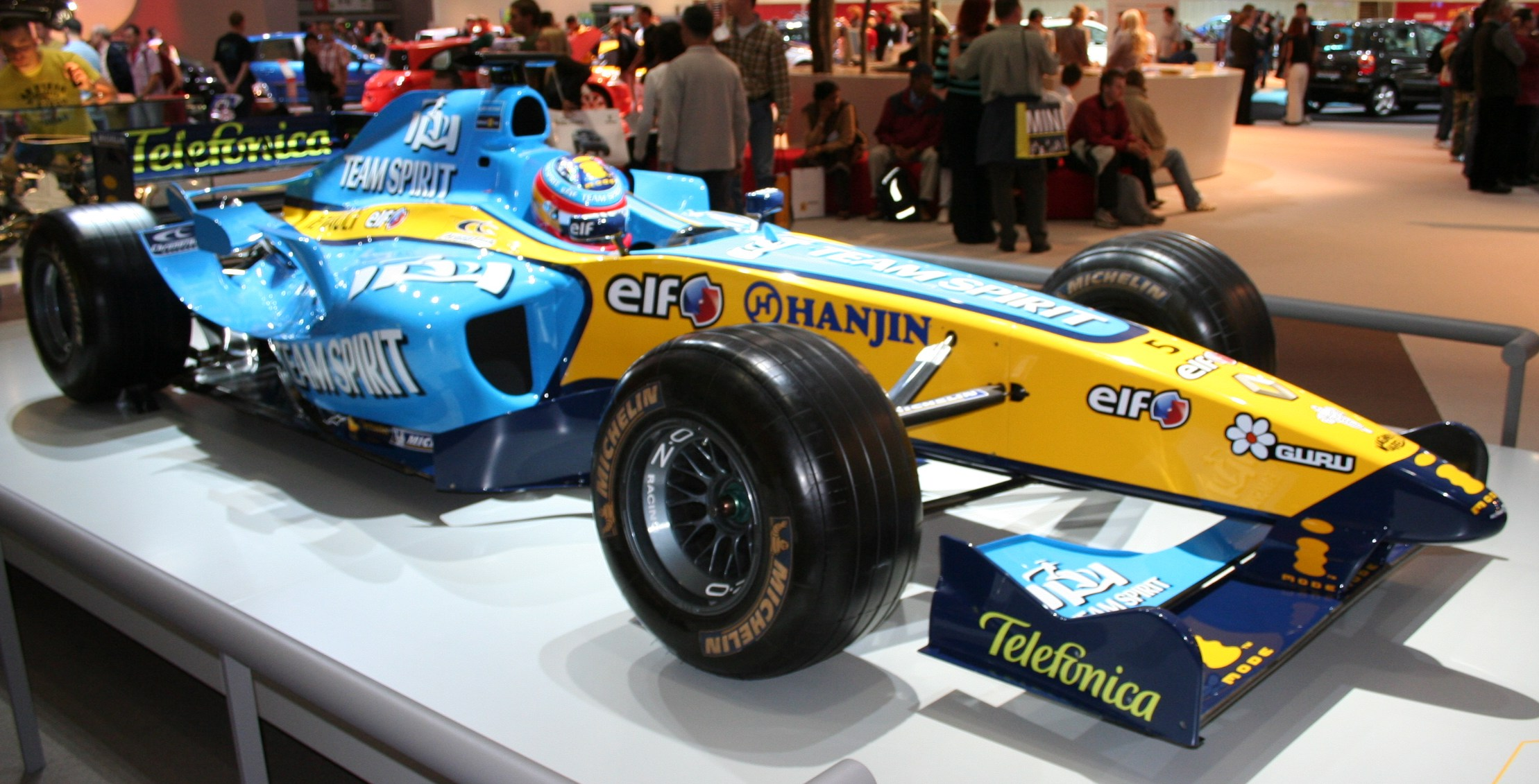 Renault racing car on IAA 2005 Photo taken by Ygrek, 17th September 2005.